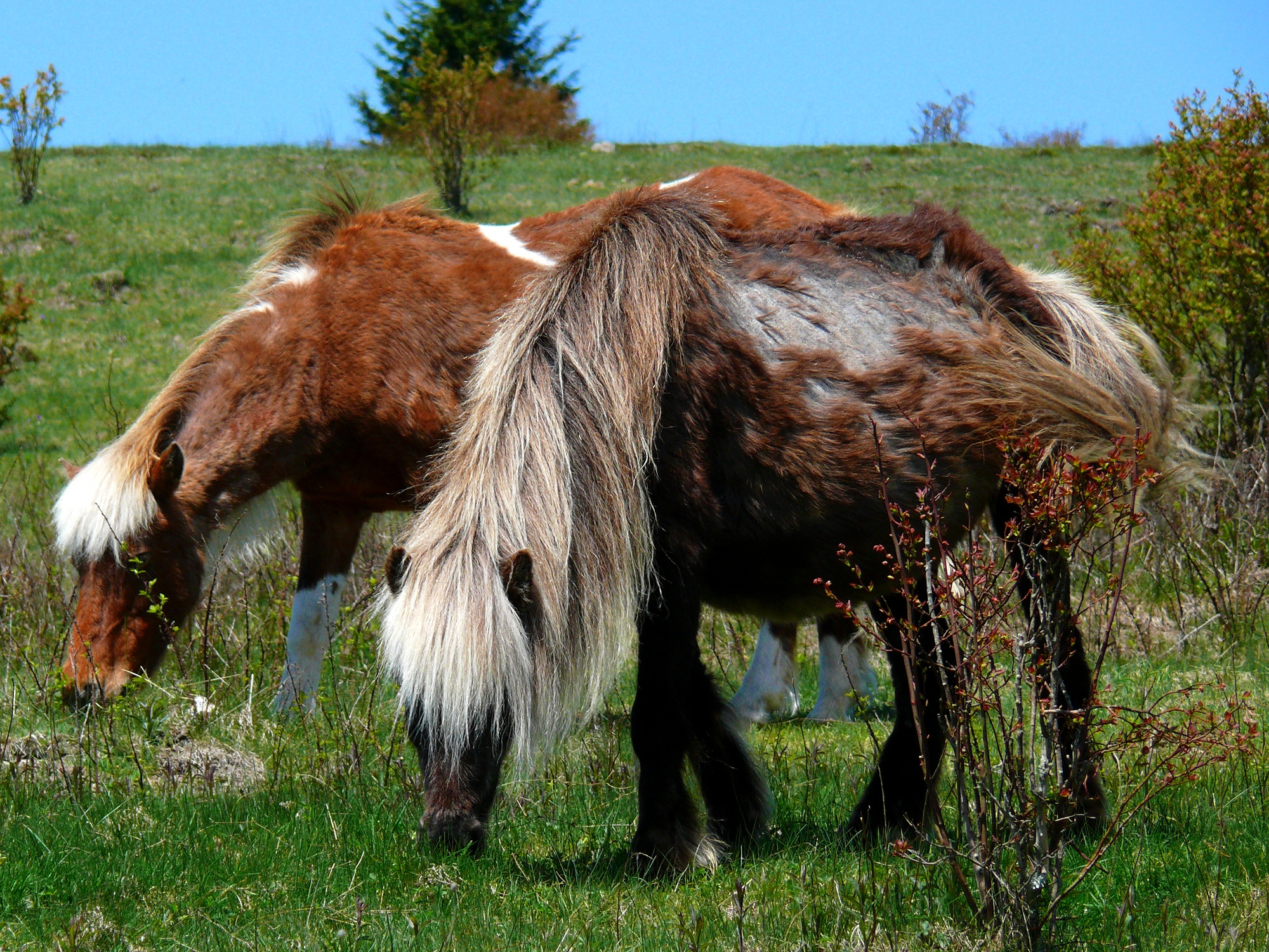 A pair of ponies feed in the grass. These are members of an introduced herd of wild ponies that has lived on the balds of Wilburn Ridge in Grayson Highlands State Park for over 50 years. Photo taken with a Panasonic Lumix DMC-FZ50 in Grayson County, VA, USA. Cropping and post-processing performed with The GIMP.